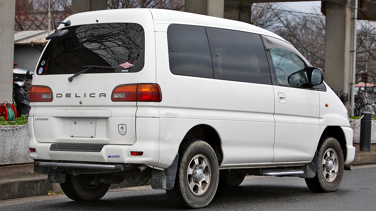 Mitsubishi Delica L400 Space Gear Series 2 Chamonix model